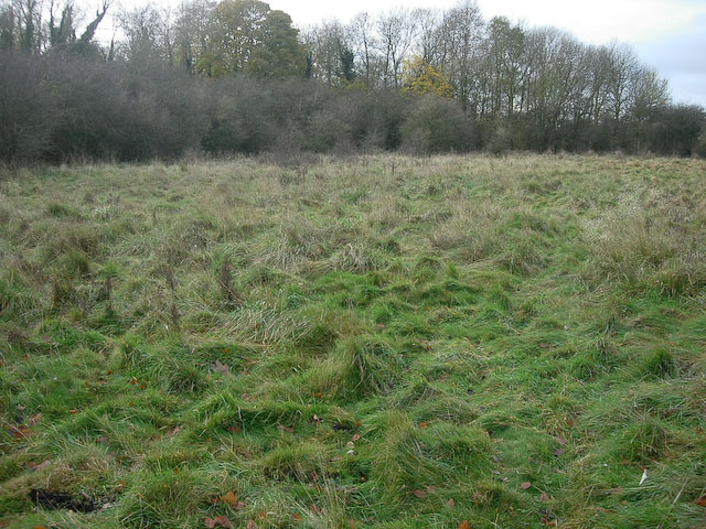 Great Wilbraham Common Great Wilbraham Common supports neutral grassland communities of the calcareous loam grassland type. This is a type that is now rare in Britain. Only fragments are known to persist, chiefly as small areas of common land. This site is one of the largest remaining species-rich grasslands in Cambridgeshire. There is also a small area of woodland along the southern edge.